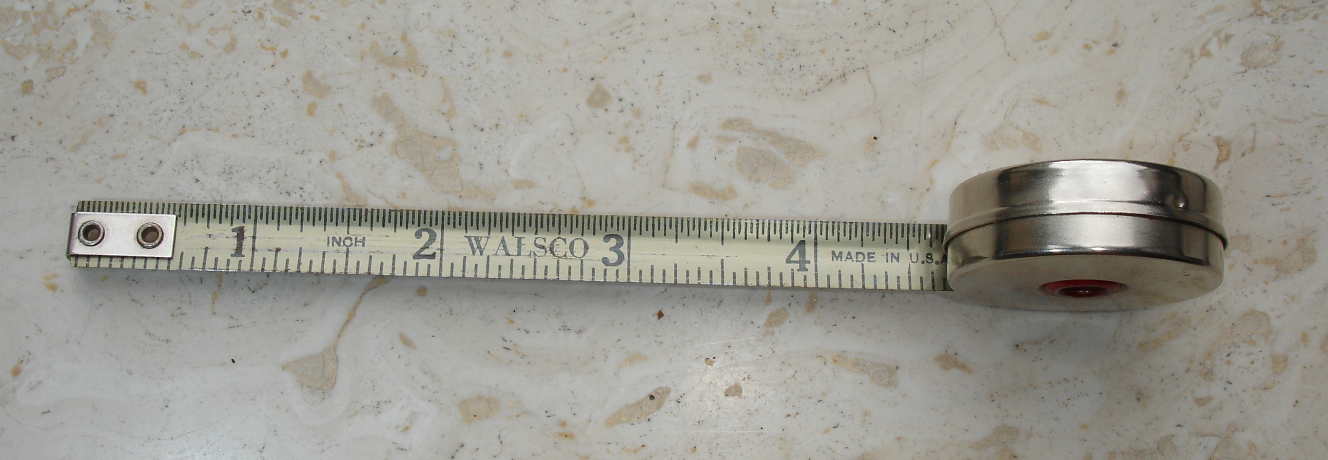 obsolete measuring rod